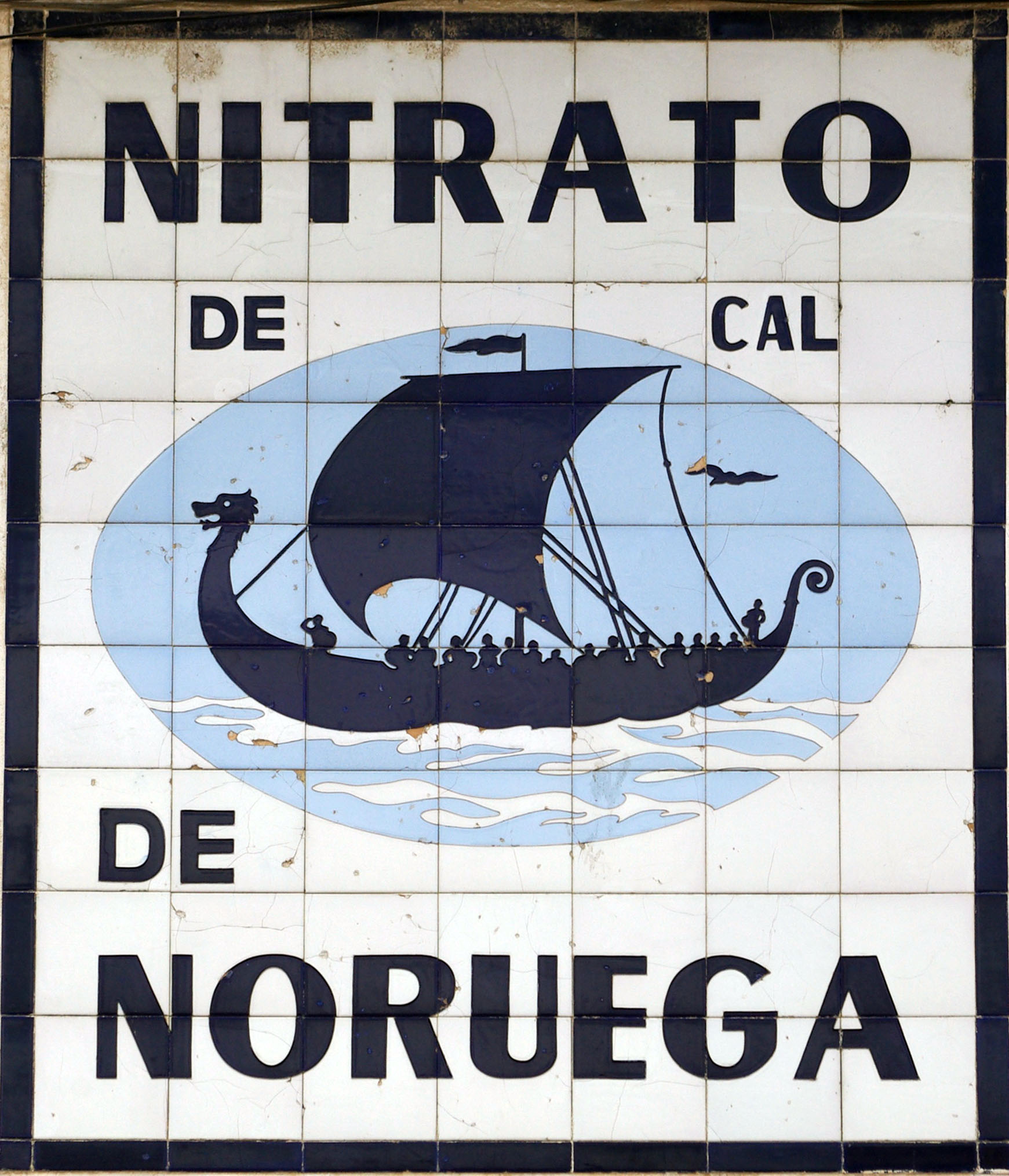 Nitrato de cal de Noruega (Calcium nitrate, Norway's quicklime nitrate, "Norway salpeter", "Norges salpeter" or "Nitrate of lime"), advertisement made of decorated tiles in Peñafiel, (Valladolid, Spain)